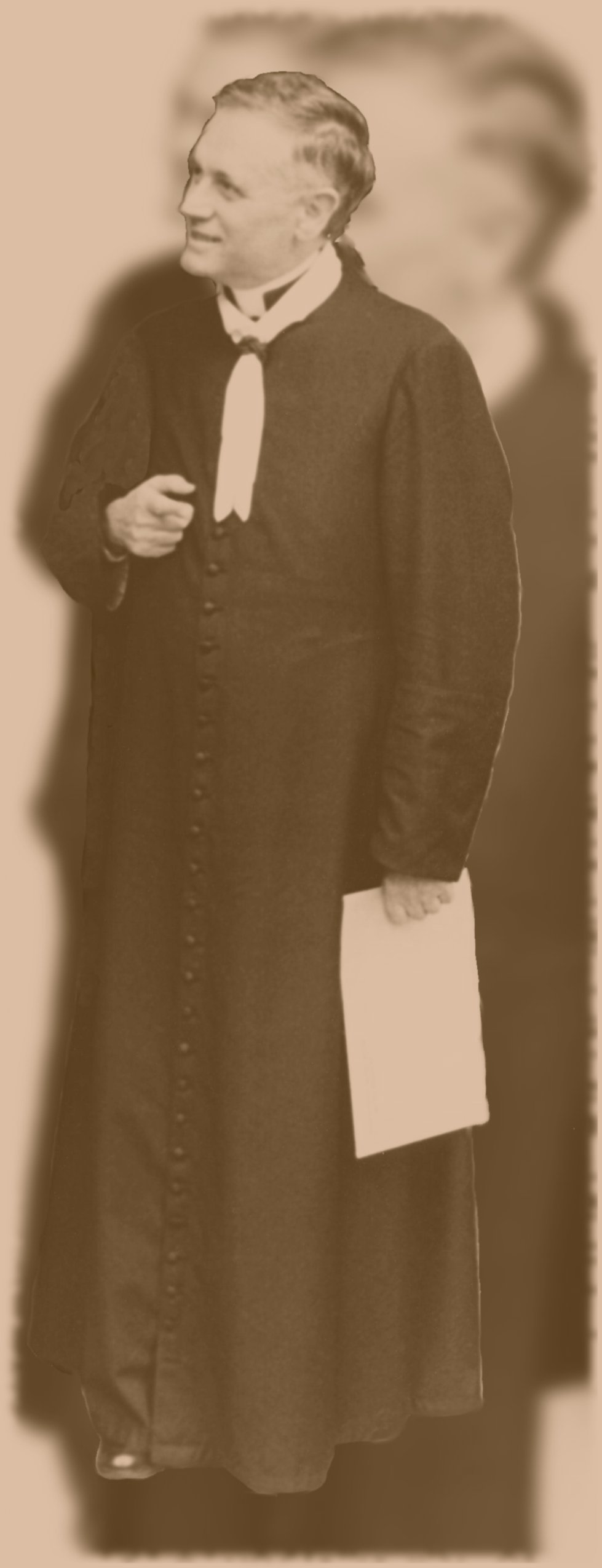 This picture is an elaboration from Mcicogni shot taken in Andreana Center (Orzinuovi, Italy) after a little meeting for Scout people.